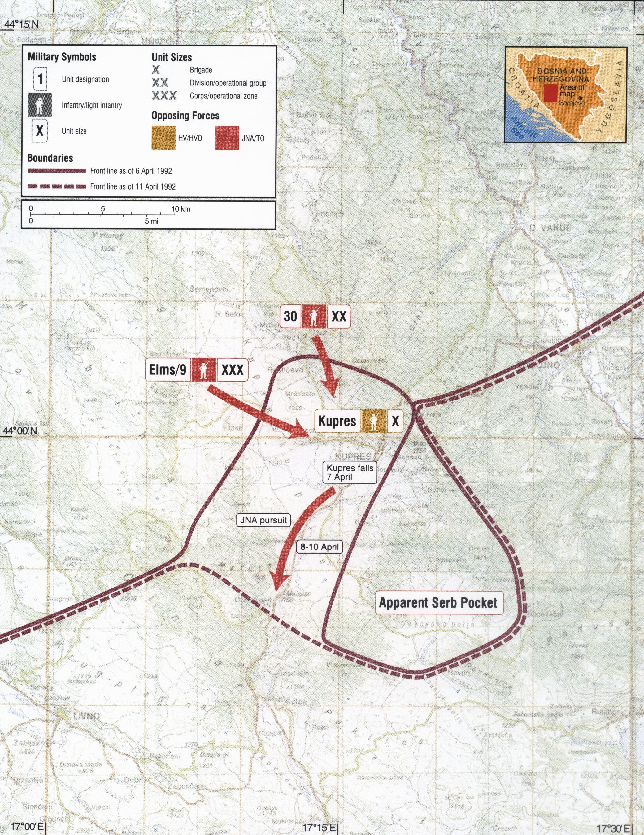 Map of the 1992 Battle of Kupres. Balkan Battlegrounds Map 8